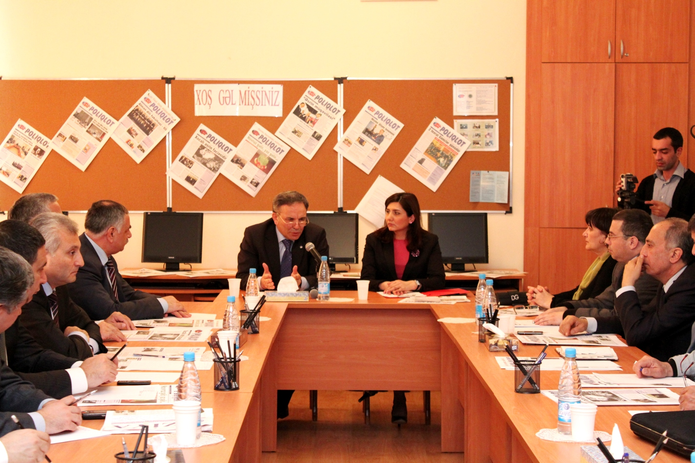 University of language in Baku